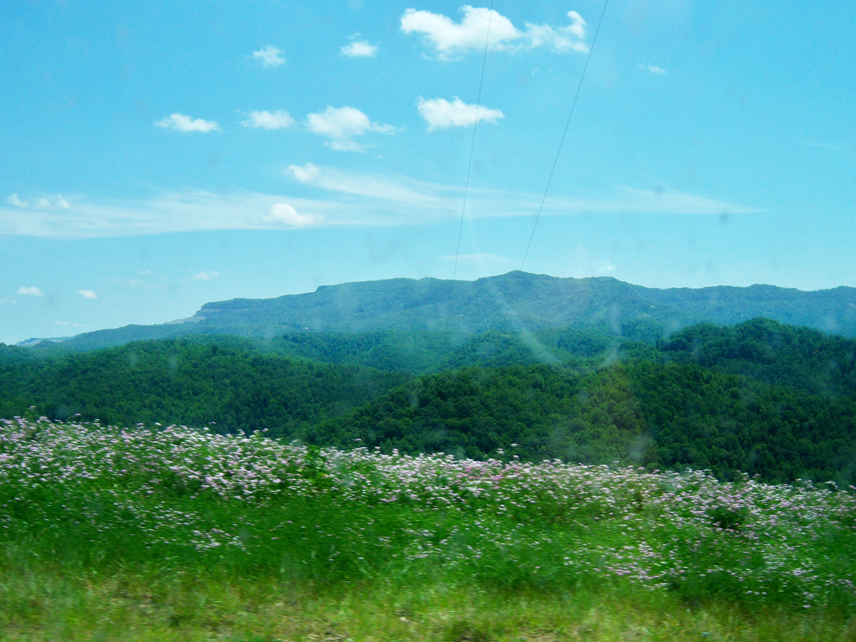 Black Mountain (Kentucky's highest point) as viewed from nearby Pine Mountain.